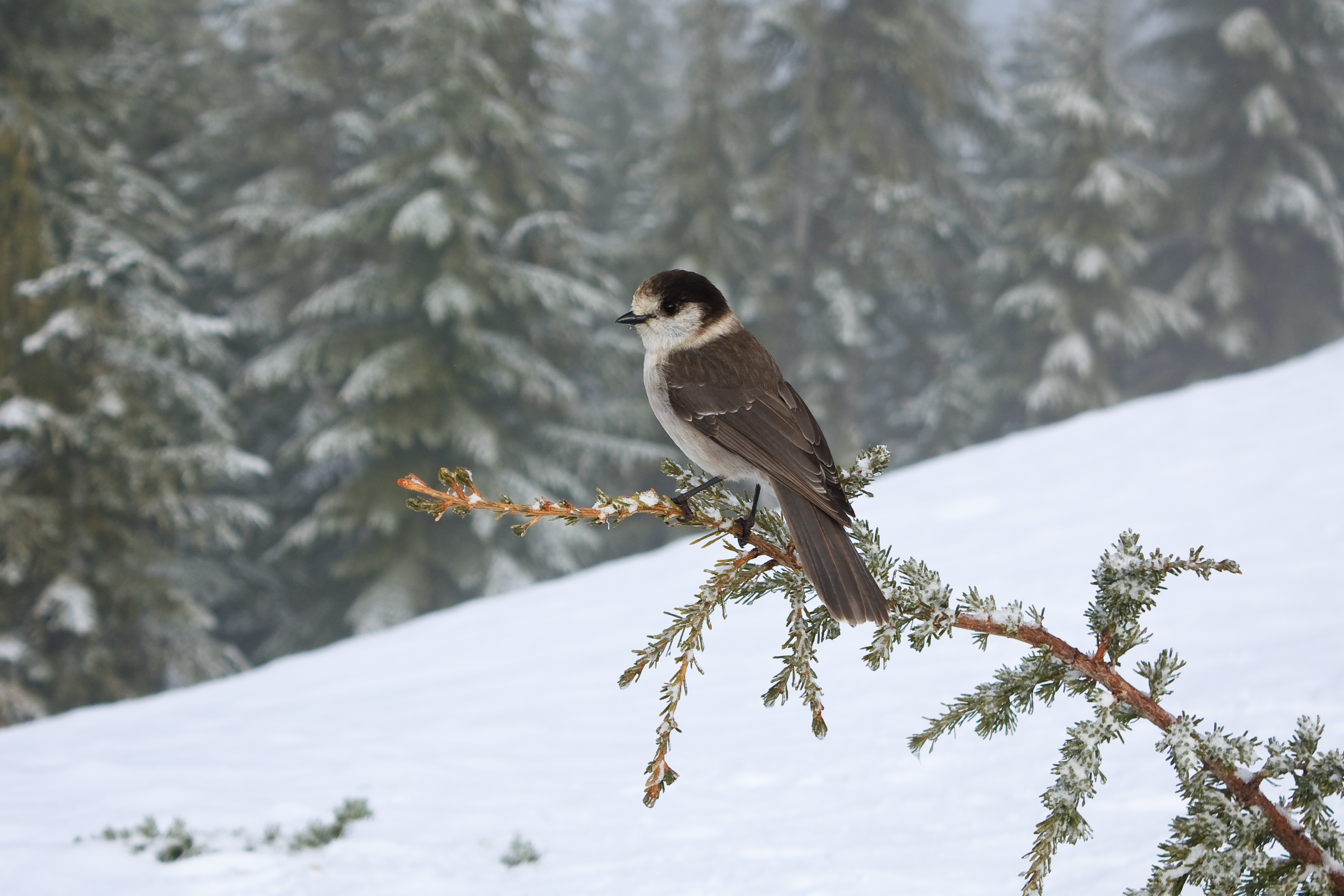 A Grey Jay on Dog Mountain, Seymour Park, North Vancouver, British Columbia, Canada.